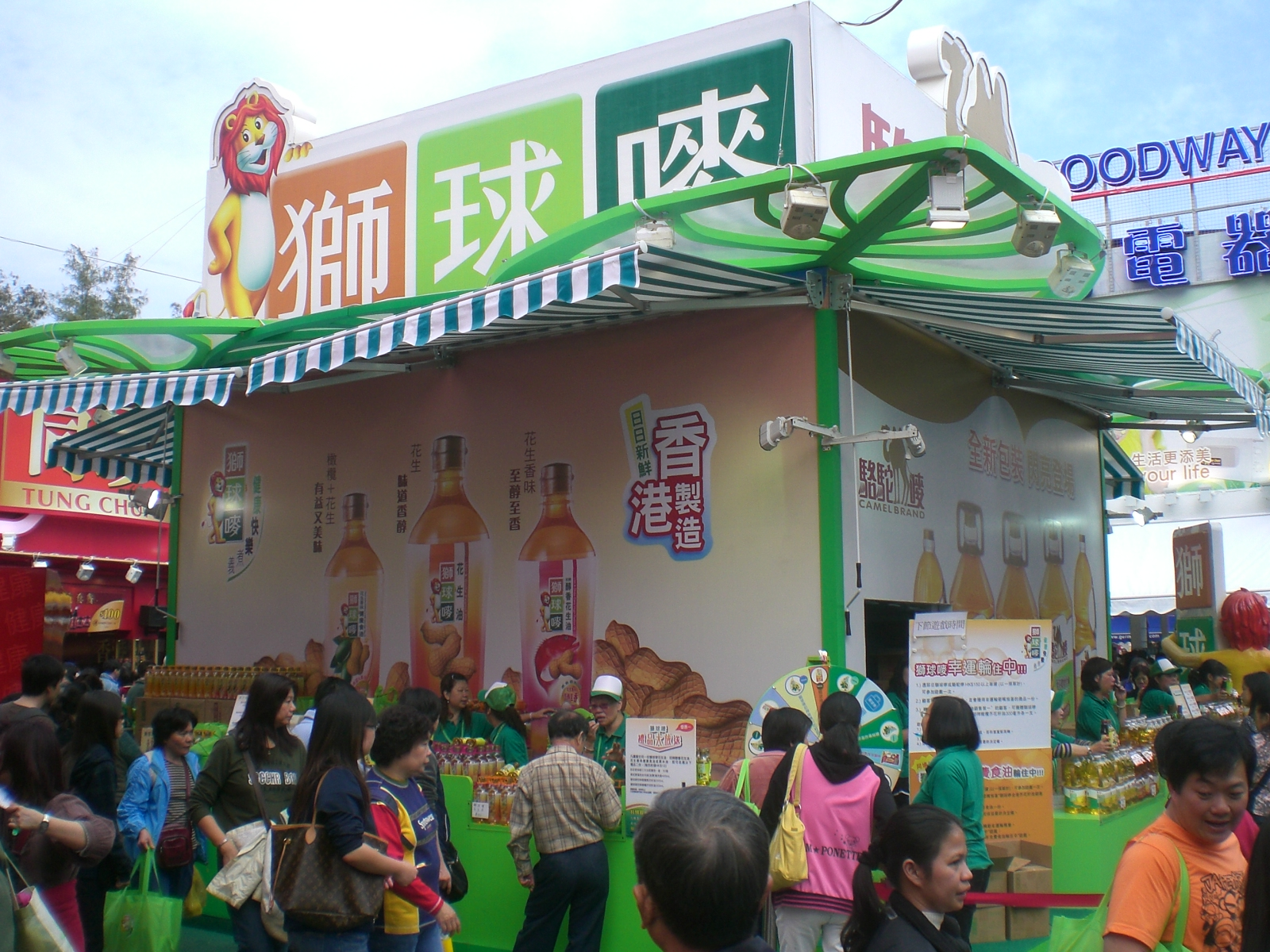 合興集團參與香港zh:工展會